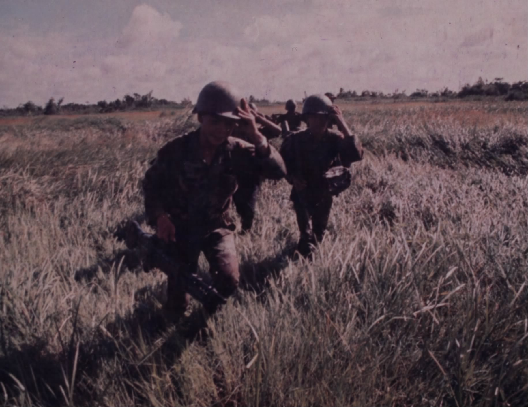 Members of the ARVN 21st Division, run toward waiting helicopters.